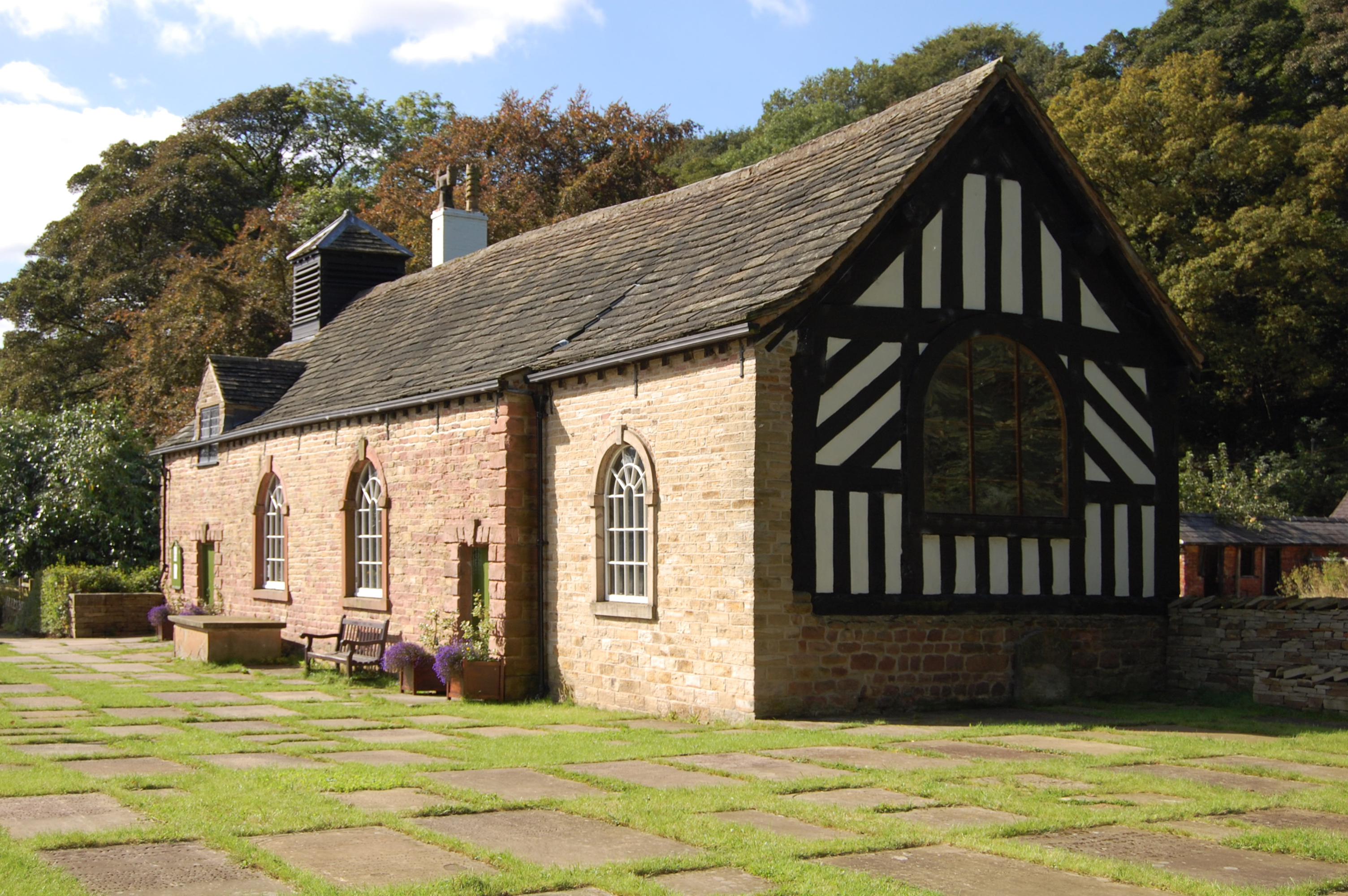 Chadkirk Chapel, Romiley seen from the east.